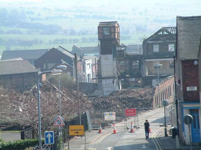 Demolishing Johnson Brothers Pottery Demolishing the famous Johnson Brothers pottery factories in June 2004. The photo is taken from Derby Street looking down Eastwood Road. In the distance is Berry Hill fields. The buildings being demolished in the foreground is Hanley Pottery and those to the left are the Trent Works.